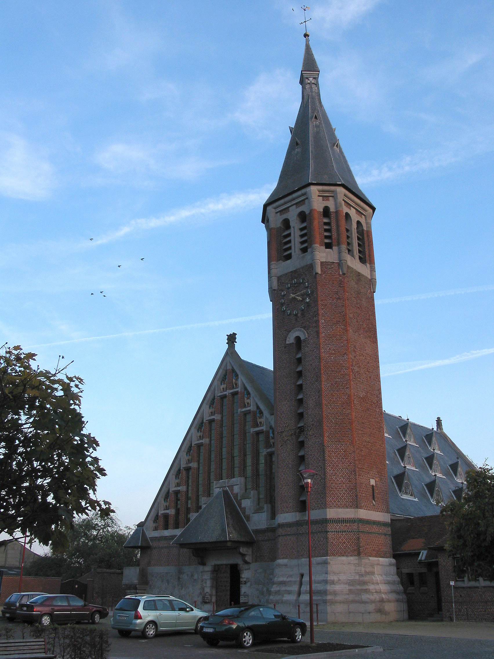 Bléharies (Belgium), the St. Aybert church (1924-1926 - Architect: Henri Lacoste).